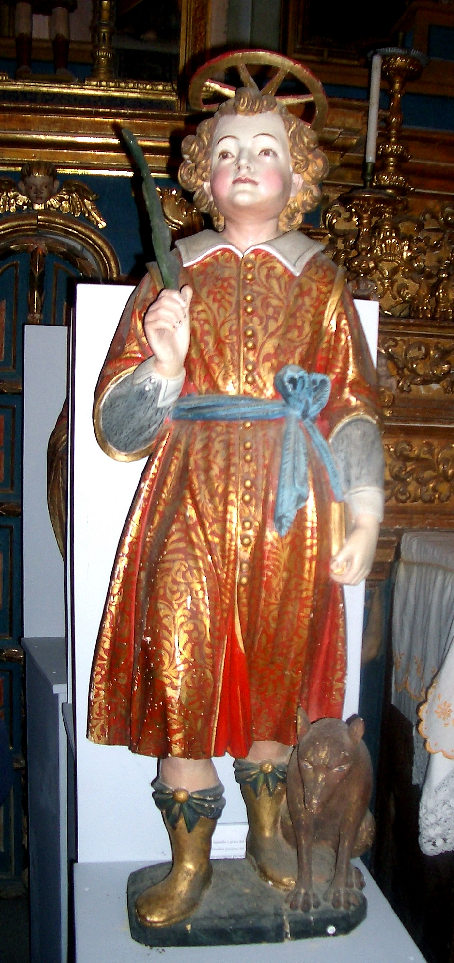 Unknown artist of XVII century, Saint Quirico (Cyr, Cyricus, Quiricus), wood, Oratorio dell’Annunziata, Boccioleto, Vercelli, Italy